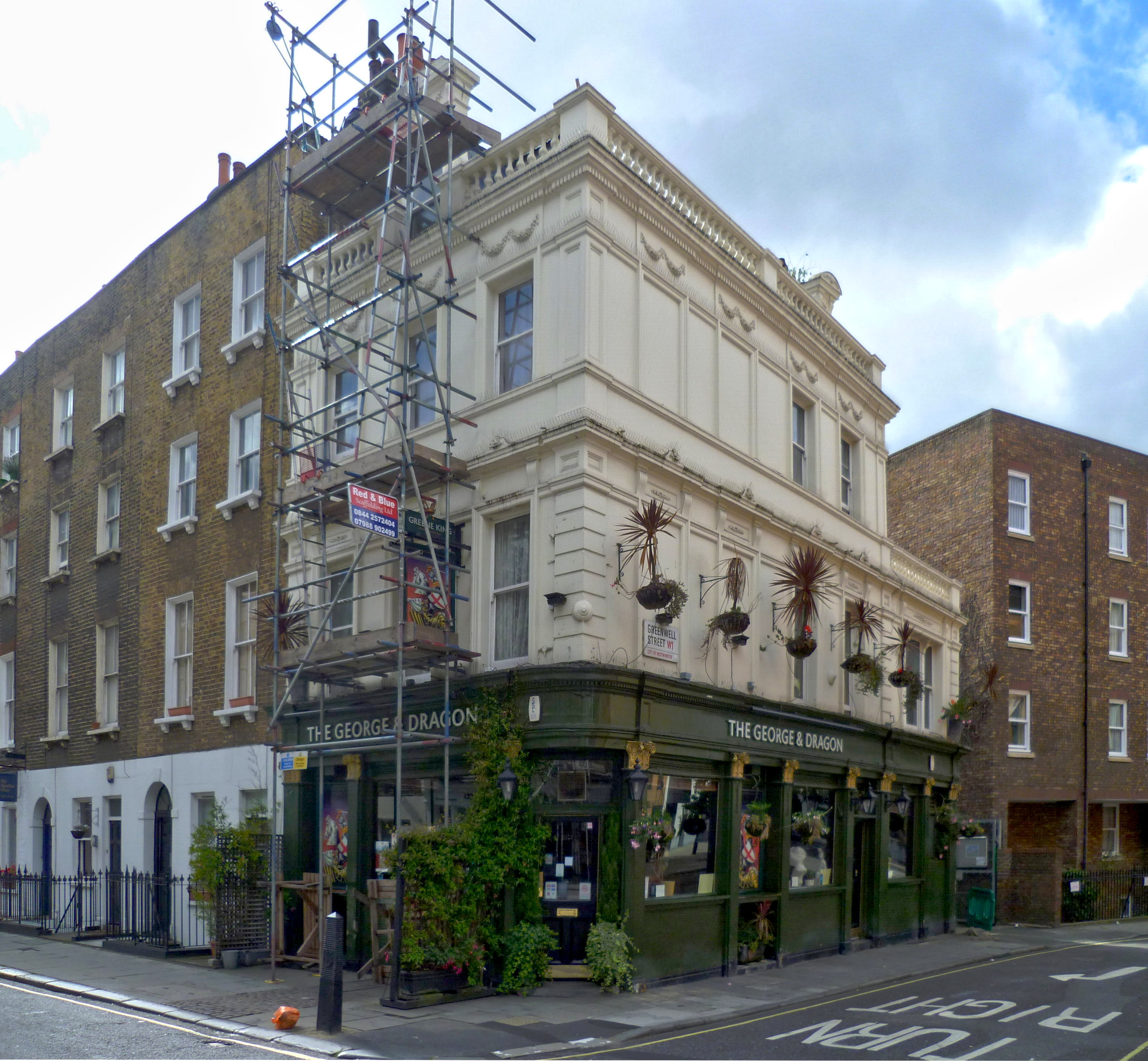 London